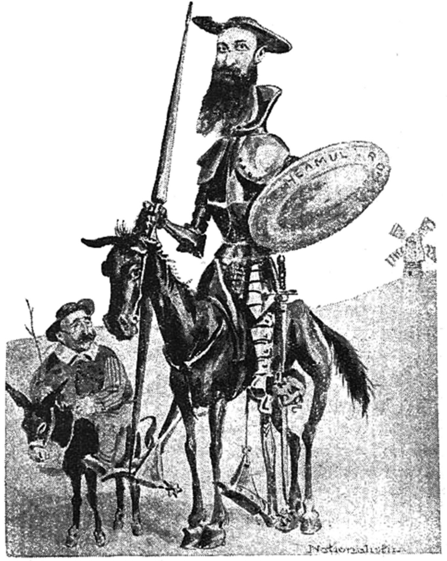 Naţionaliştii ("The Nationalists"). A caricature of Nicolae Iorga and A. C. Cuza, founders of the Romanian antisemitic, "Democratic-Nationalist", political party. Iorga depicted as a Don Quixote, his shield marked Neamul Românesc (title of the Democratic-Nationalist newspaper), a severed Jew's head hanging from his stirrup; Cuza as Sancho Panza.